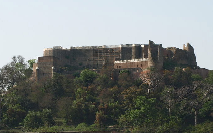 Bhim Garh Fort @ Reasi